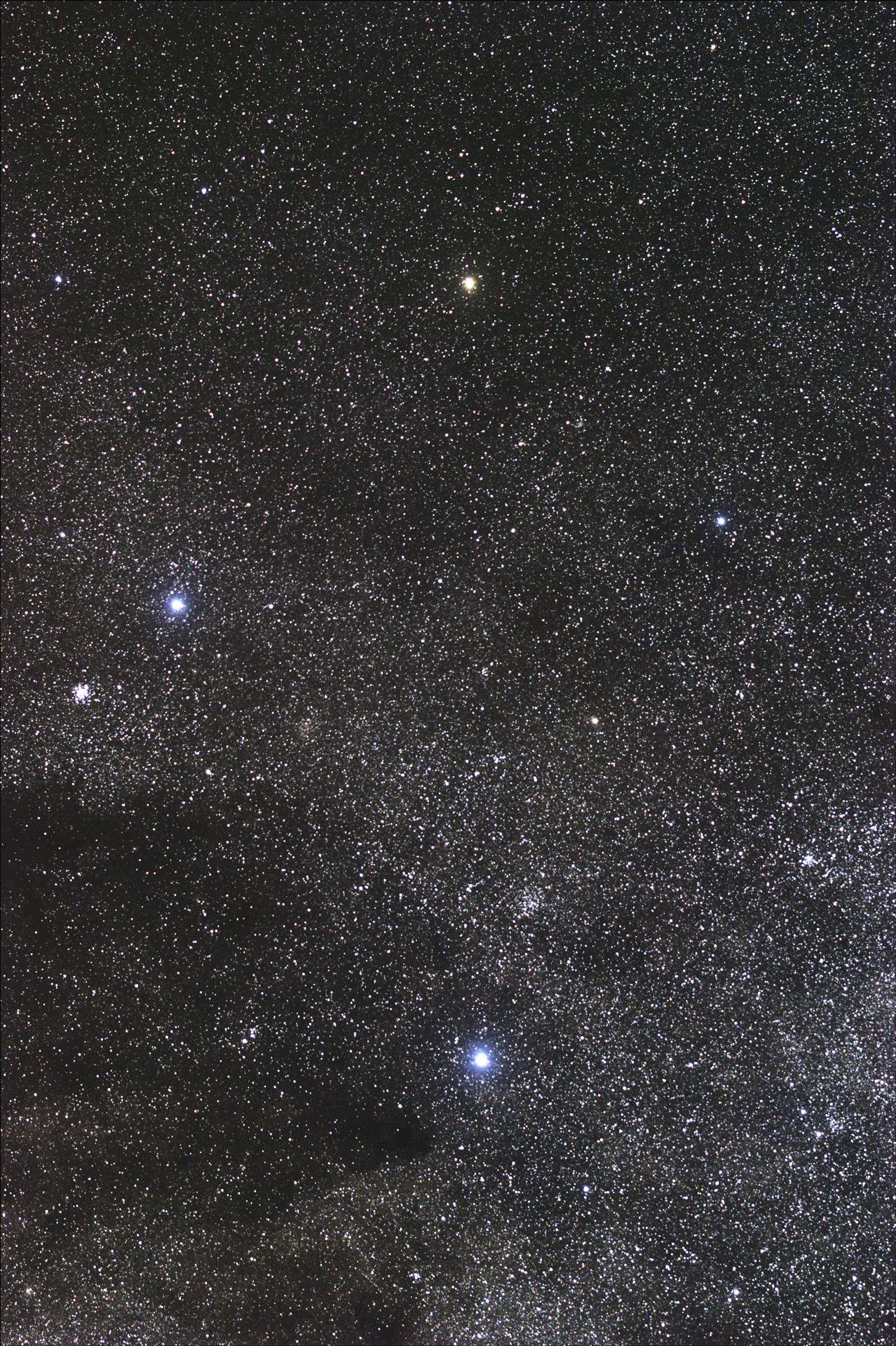 This starfield embraces the constellation Crux. Many open clusters are visible in the picture. The most bright are NGC 4755, at the left of the bright star Beta Crucis, and NGC 4349, near the center of the picture. Their positions, as those of other objects, have been highlighed through notes.